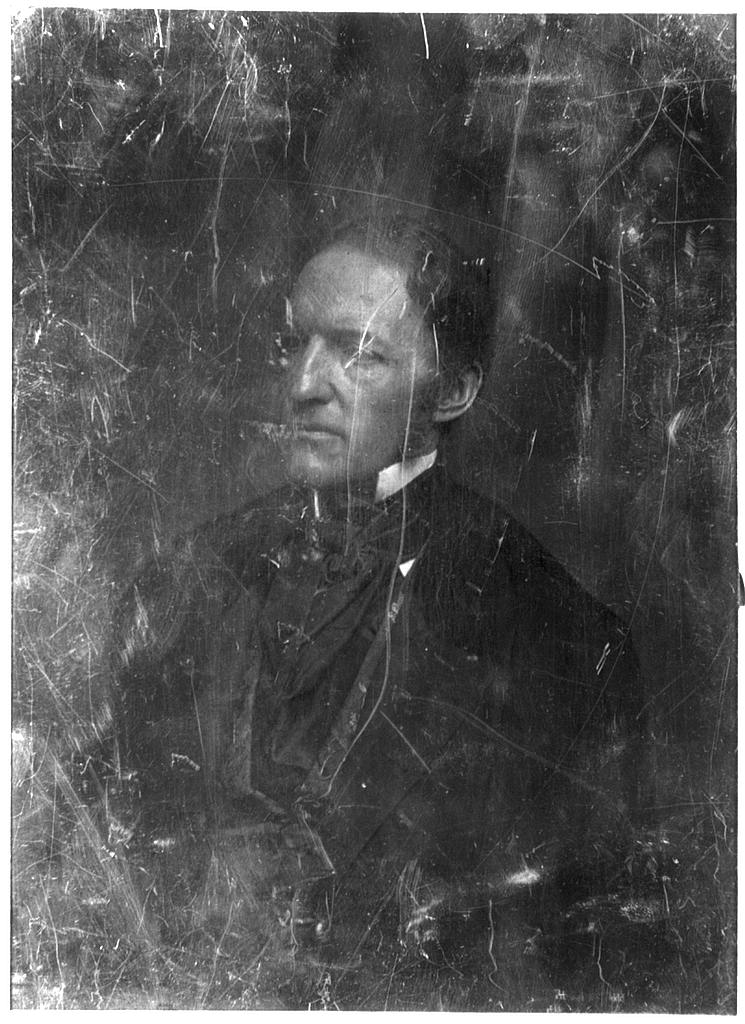 Daguerreotype portrait of William H. Prescott (1796-1859), the American historian and hispanist. This portrait has been reproduced as a lithograph by Francois d'Avignon, plate 8 in Charles Edwards Lester's Gallery of illustrious Americans, 1850, published by M.B. Brady.